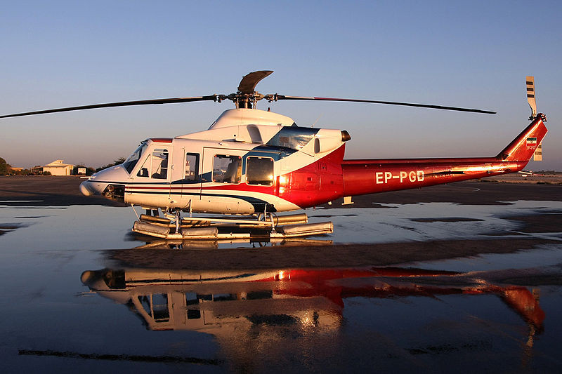 A Bell 412 of PASCO teaching pilot institute, parked on Kish Airport in 2012 Iran Kish Airshow.